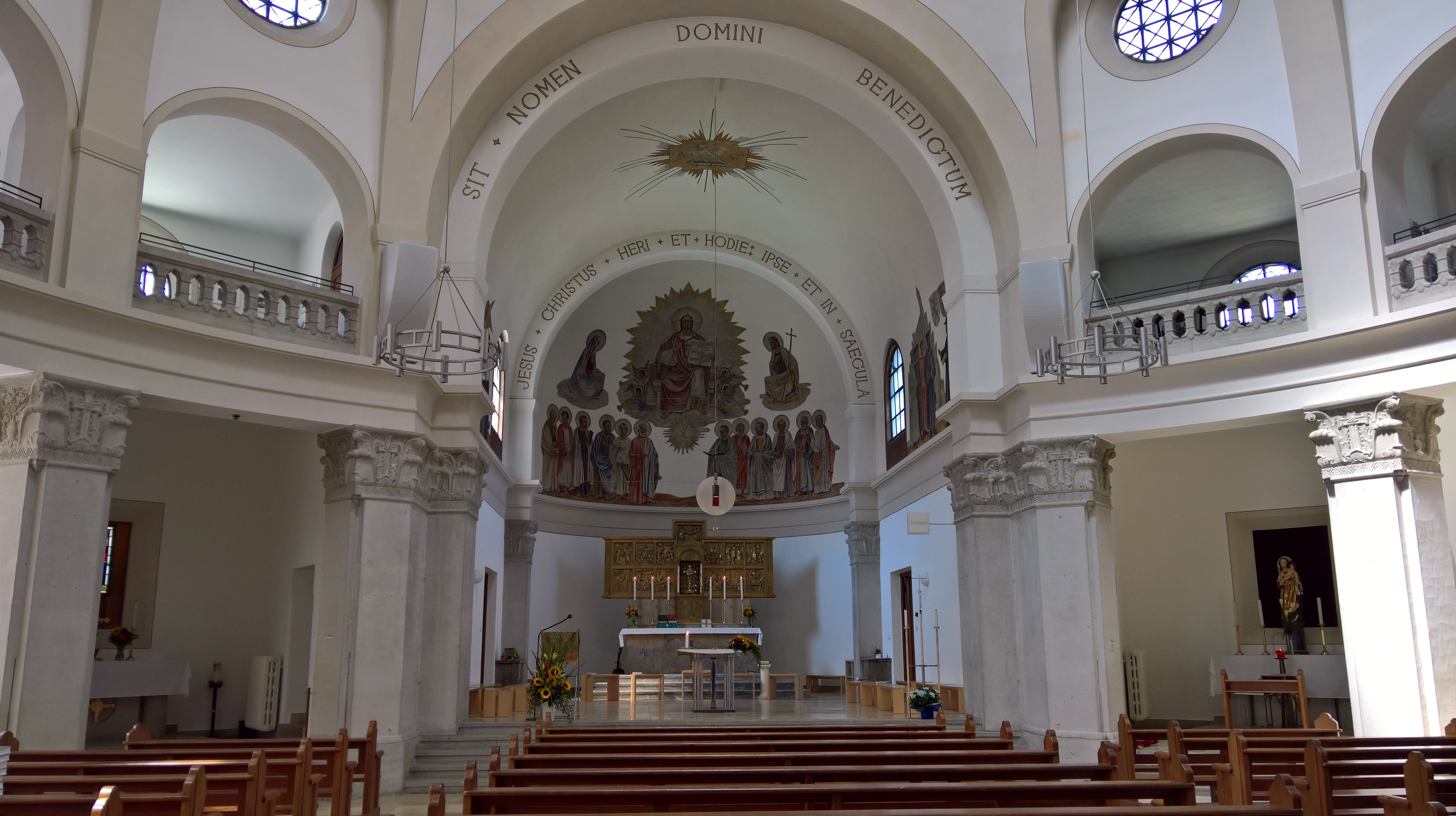 Church of the German Day school Erzbischöfliche Tagesheimschulen Pullach in Pullach im Isartal